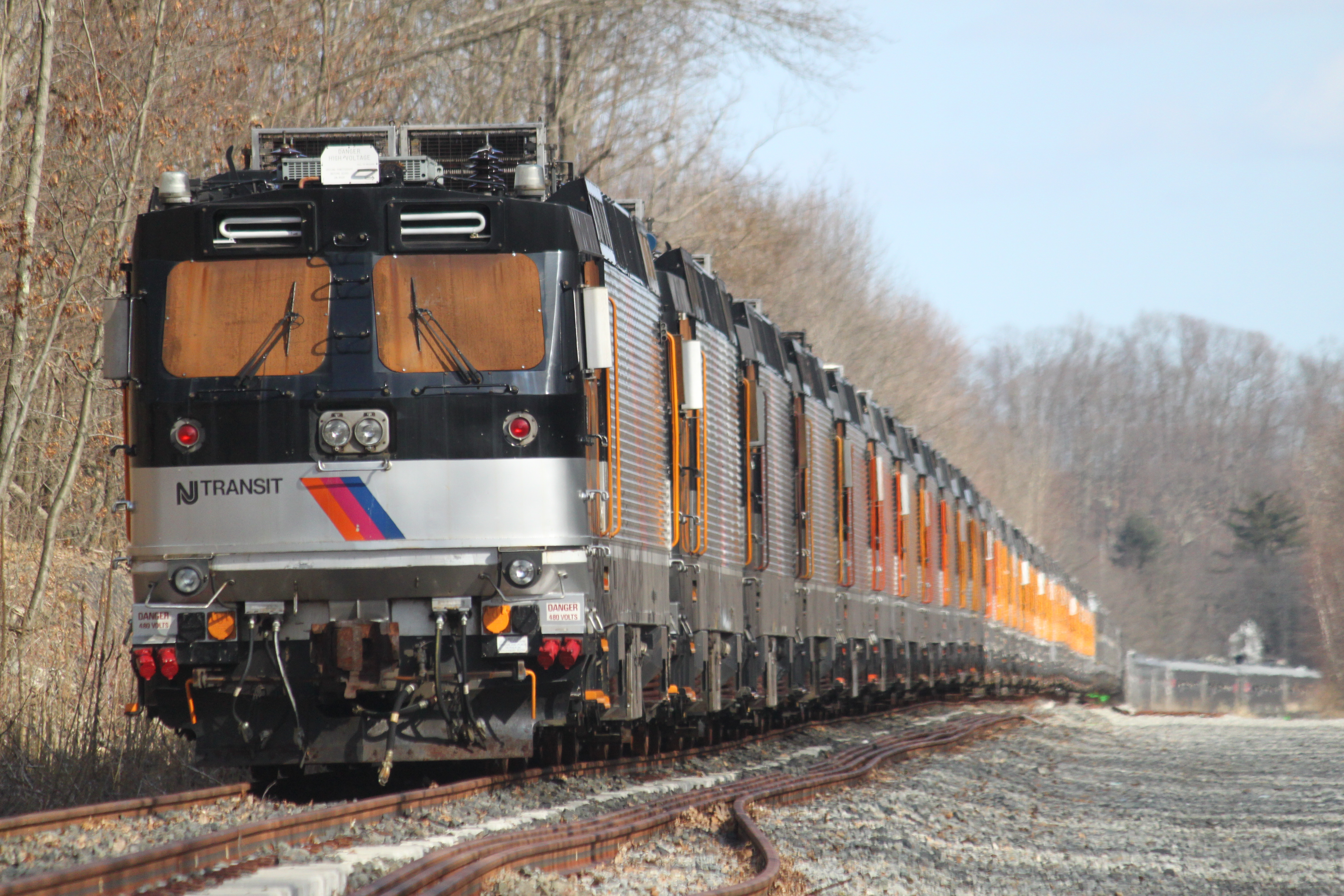 ALP-44 locomotives and Arrow cars stored on the Lackawanna Cut-Off at Port Morris yard, Roxbury Township, New Jersey.